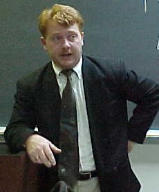 Oklahoma Libertarian Party Chair Chris Powell speaking at Oklahoma City University in 2004.